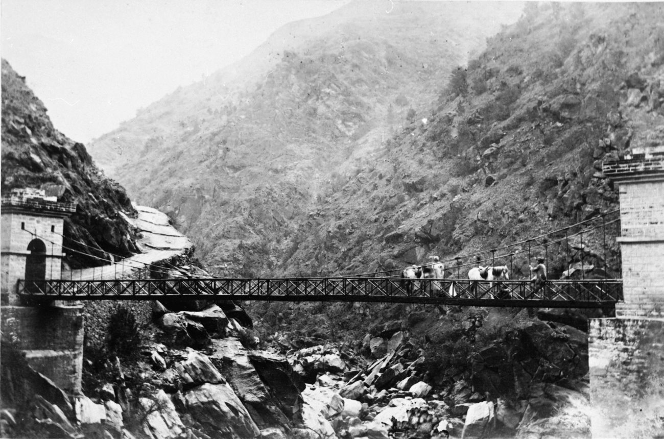 C15248 Hängbro av järn på vägen mellan städerna Minetal och Almora. Fotografiet tillhör metallurgen Carl Gustaf Wittenströms arkiv som visar livet i Indien under 1860-talet. Suspension bridge between Minetal and Almora, India. Hängebrücke zwischen Minetal und Almora, Indien. Die Fotografie gehört Metallarbeiter Carl Gustav Witt Ströms Archiv, der das Leben in Indien in den 1860er Jahren dokumentierte. Photo: Wittenström, Carl Gustaf,1860-1865.